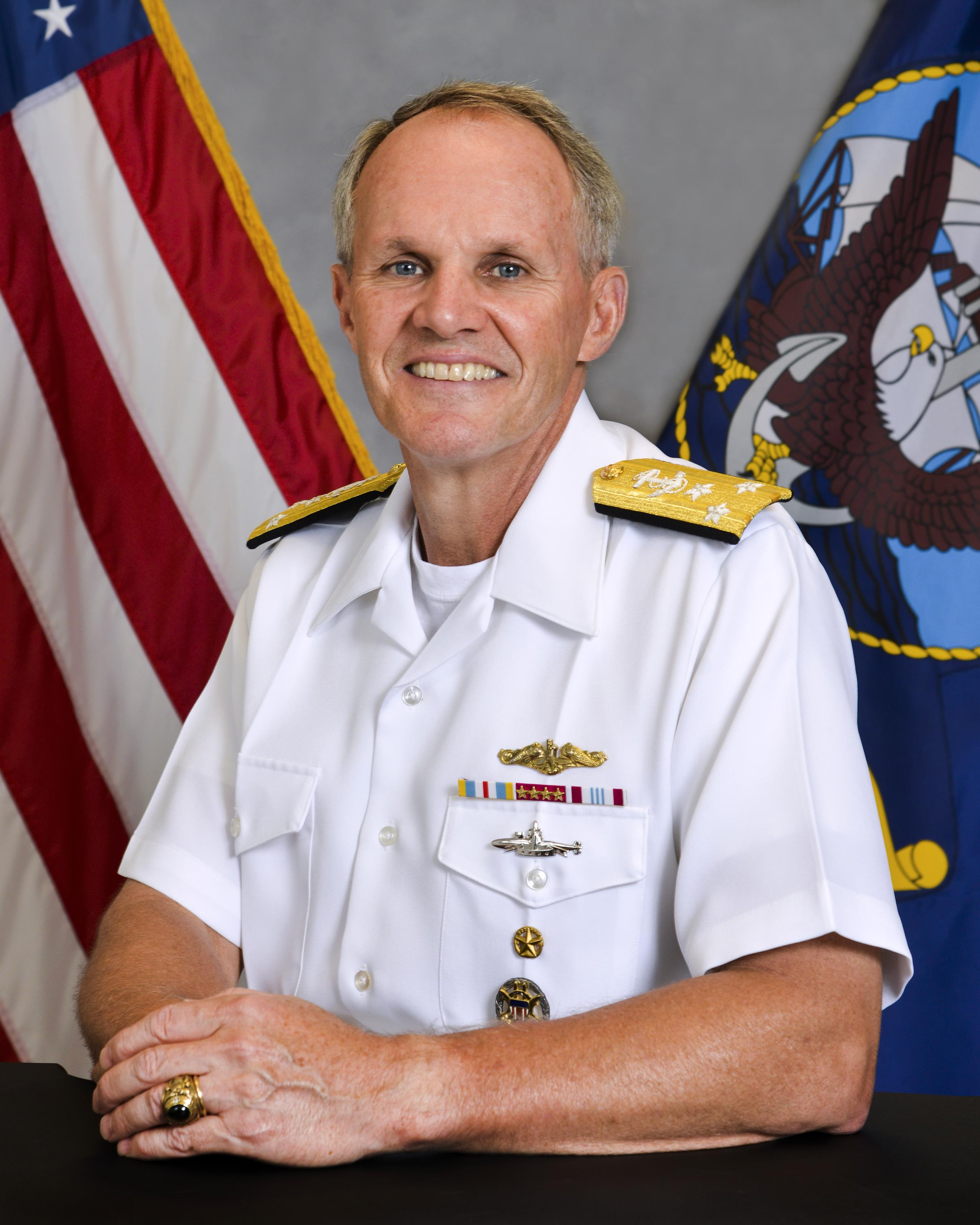 Vice Adm. Phillip G. Sawyer